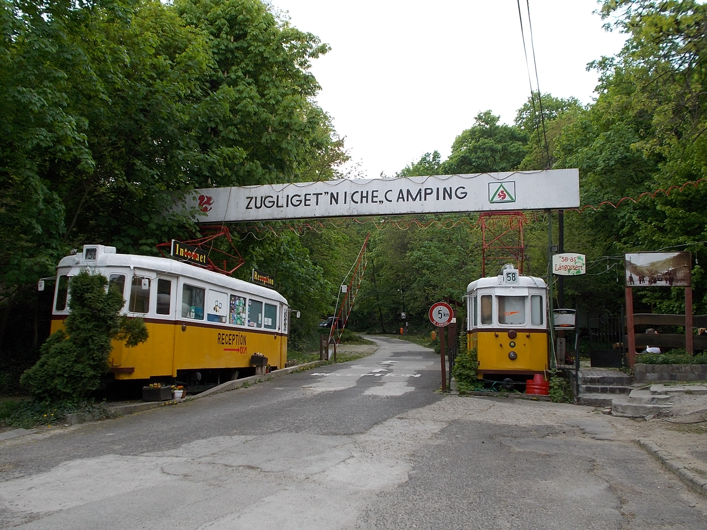 Entrance to the Niche campsite. Trams used for buildings. - Zugligeti Road 99, 12th district of Budapest